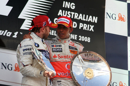 2008 Australian Grand Prix Podium with drivers Lewis Hamilton and Nick Heidfeld